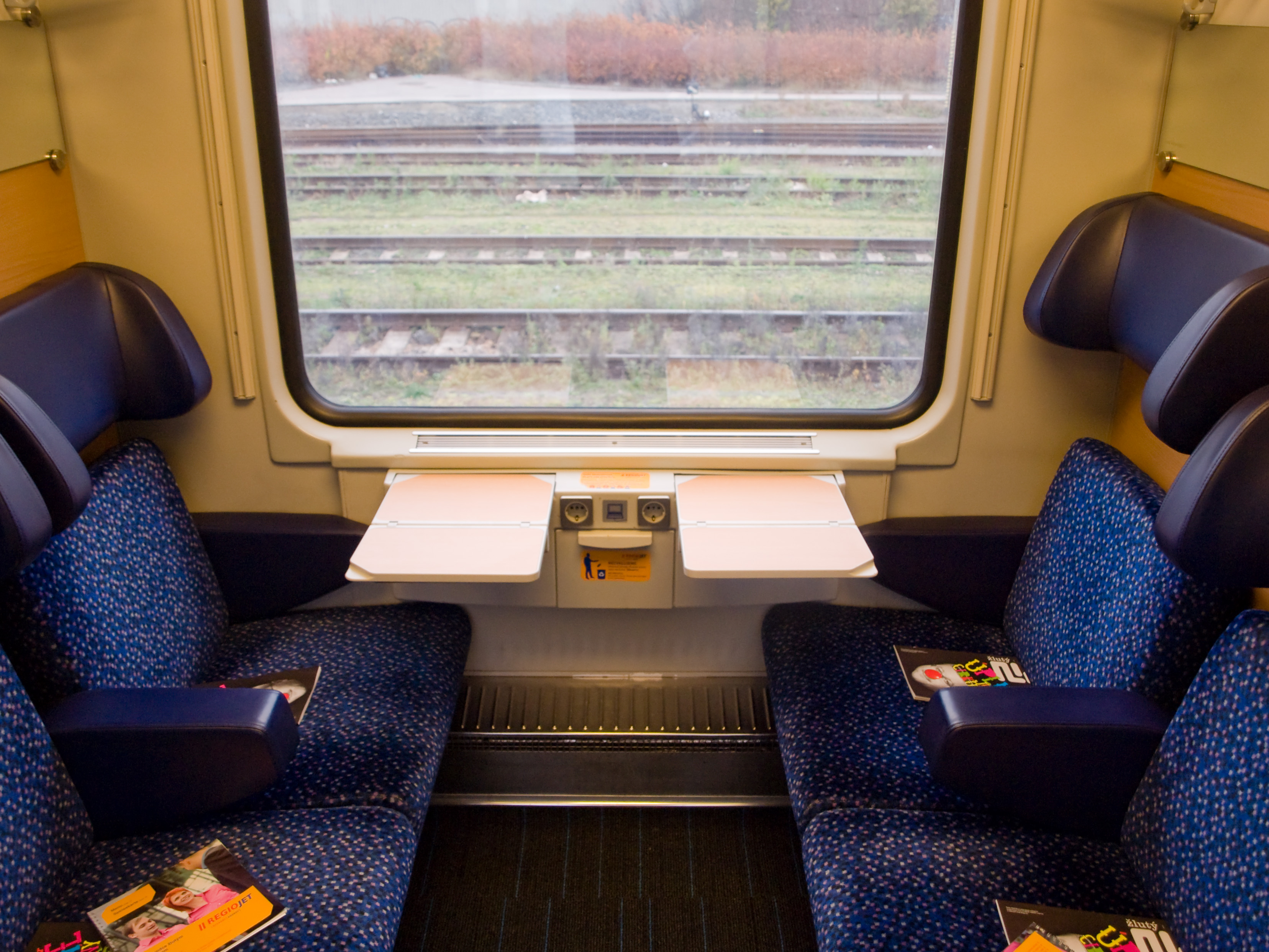 Interior of coach, train of RegioJet at Praha-Smíchov, severní nástupiště Tato série fotografií vznikla za laskavého svolení společnosti Student Agency – RegioJet